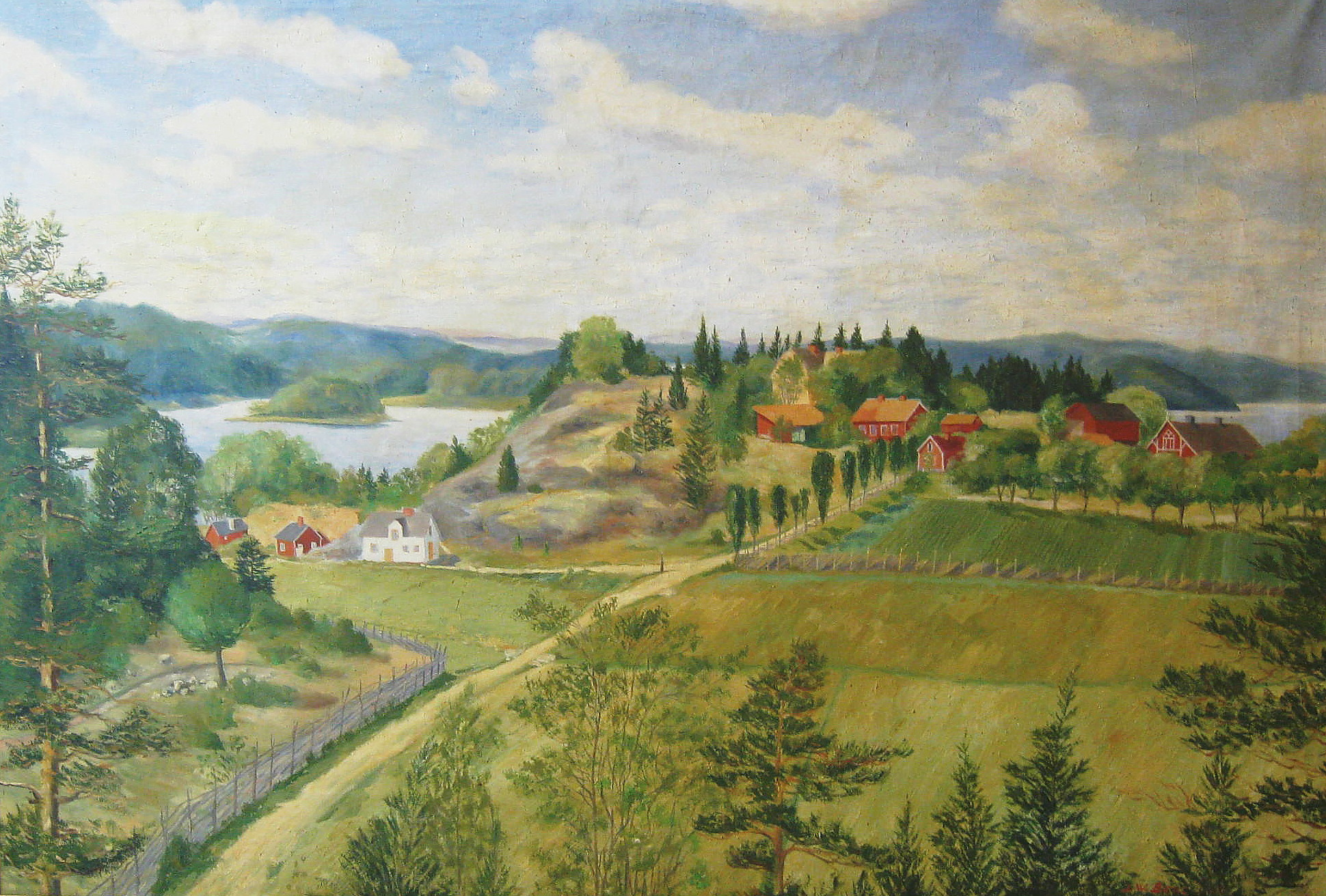 Ålsten estate, Ålsten, Bromma, oilpainting by J.W. Berglund 1904.